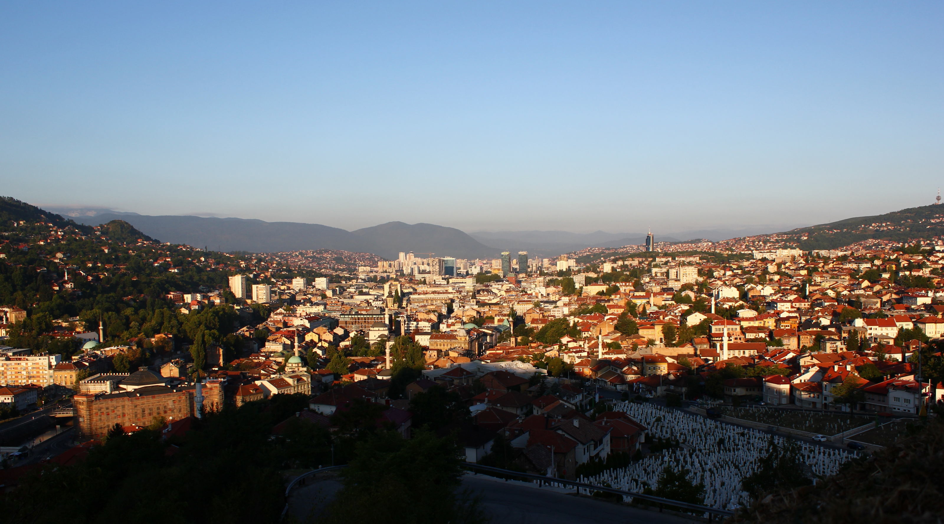 View on Sarajevo from the east. Hornjoserbsce: Napohlad Sarajewa z wuchoda.